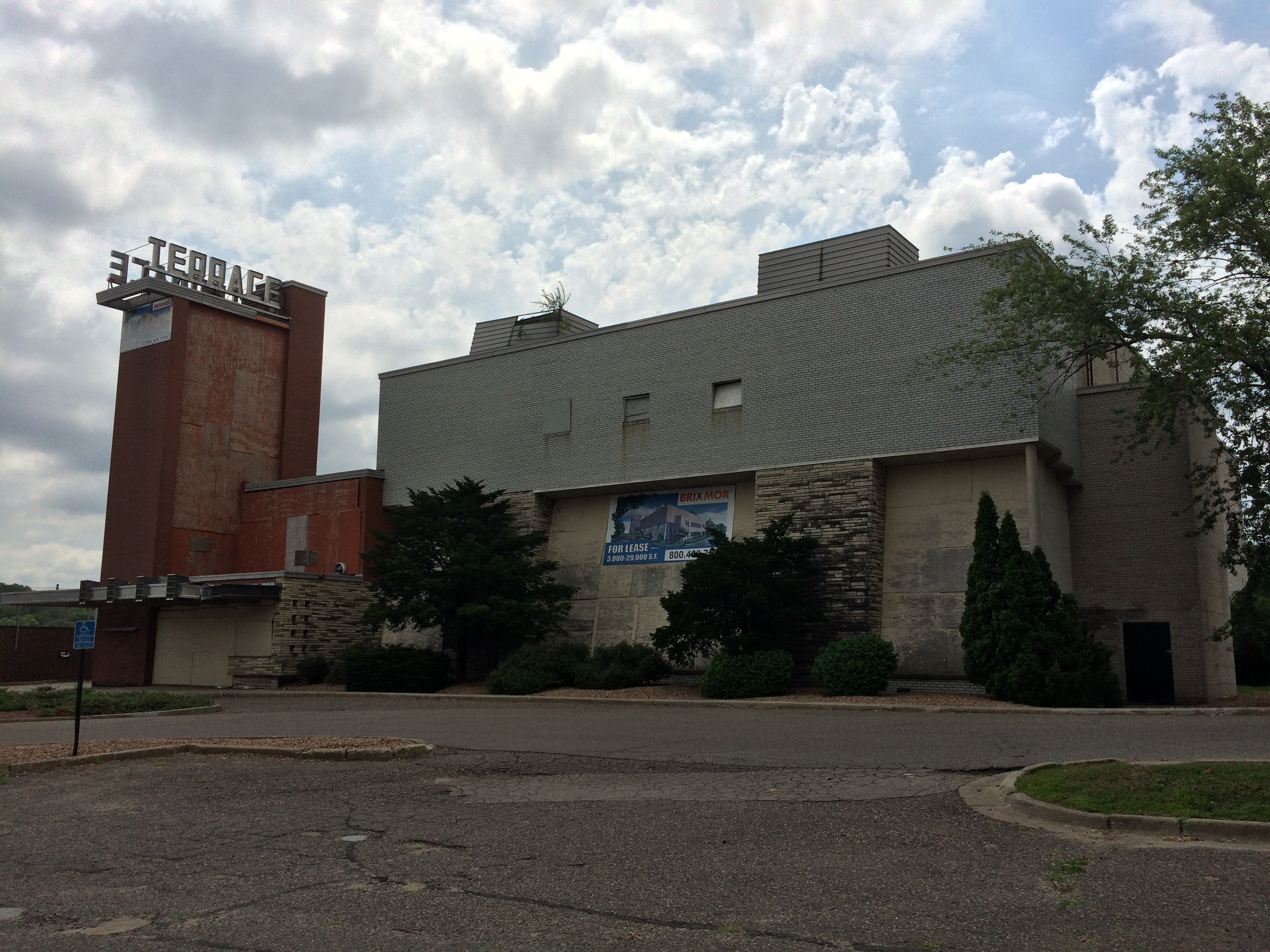 Wide shot of the Terrace Theater in Robbinsdale, Minnesota; photo taken the same day it was scheduled for demolition by the Robbinsdale City Council.